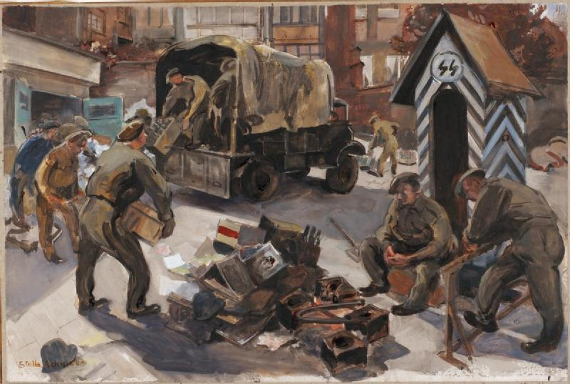 Pioneers Clearing Out an Ss Hq Brussels - October 1944 image: British soldiers are unloading boxes of items from the back on an army truck in a courtyard and emptying them into a pile on the floor in front of an SS sentry box. Two soldiers watch from the sentry box.